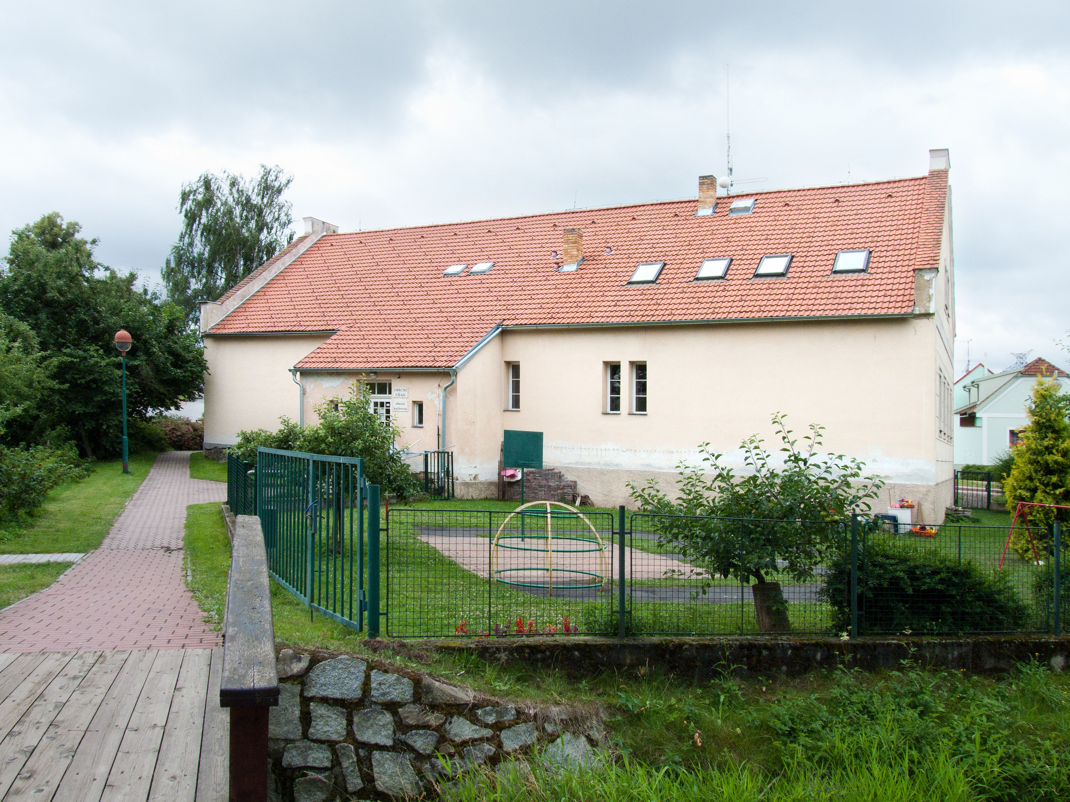 Kindergarten and the municipal authority office in the village of Úsilné, České Budějovice District, Czech Republic. Česky: Mateřská škola a obecní úřad v obci Úsilné v okrese České Budějovice.